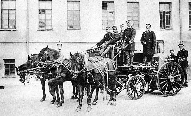 Firefighters, Moscow, early 1900s